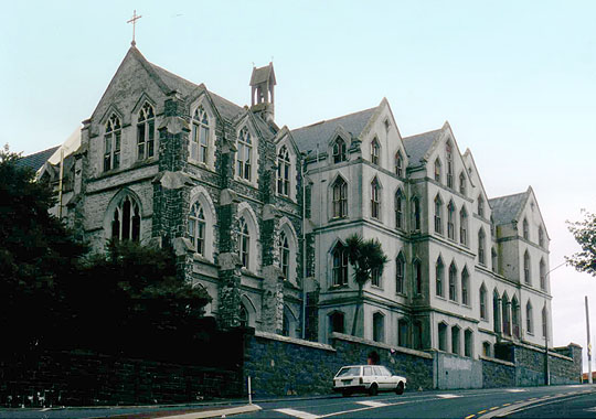 St. Dominic's Priory, Dunedin (New Zealand), designed by F.W.Petre. New Zealand Historic Places Trust Register number: 372.